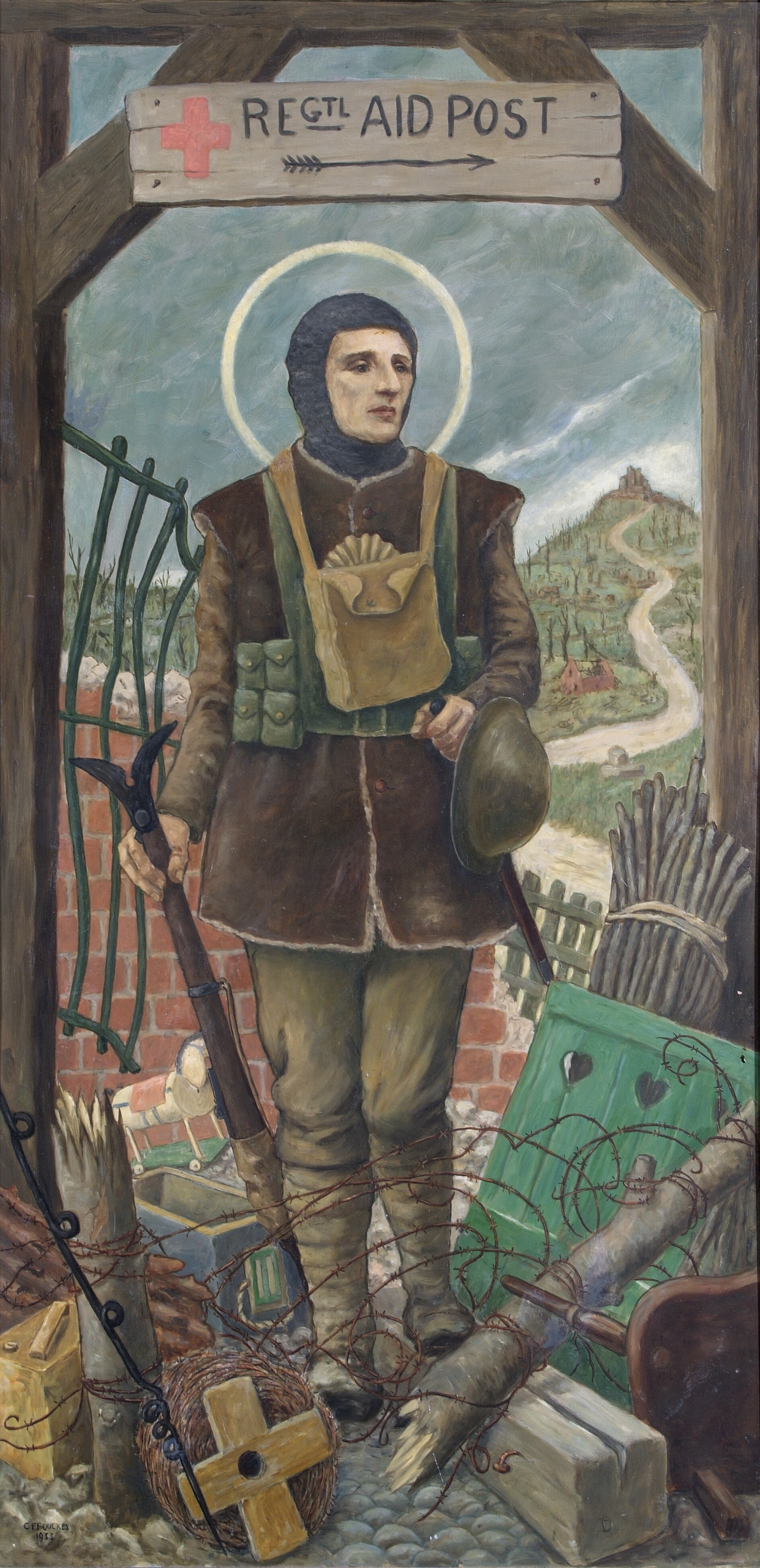 St George 1914-1918 image: An allegorical depiction of a British soldier as St George. The soldier's head is surrounded by a halo and he wears a woollen balaclava, suggestive of a medieval chainmail hood. He is dressed like a normal infantryman but carries a staff in his right hand and his left hand holds the hilt of a short sword, partially obscured by his steel helmet that is positioned much like a shield on a medieval knight. In the foreground by the man's feet are various items, including a wooden cross and barbed wire. The composition is framed with a wooden structure that has a sign for a regimental aid post at the top. A hill is visible in the background.